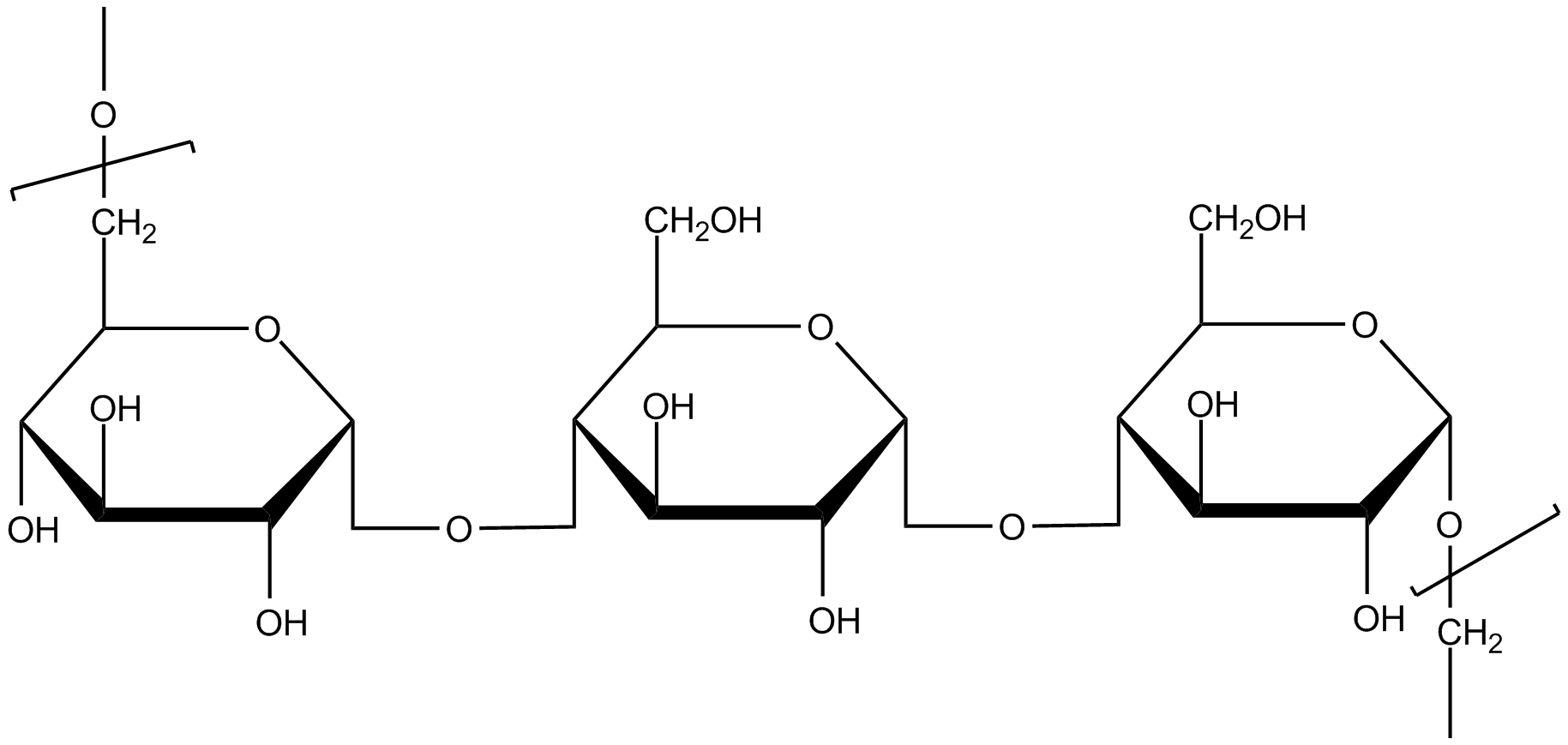 Pullulan (food additive E1204)